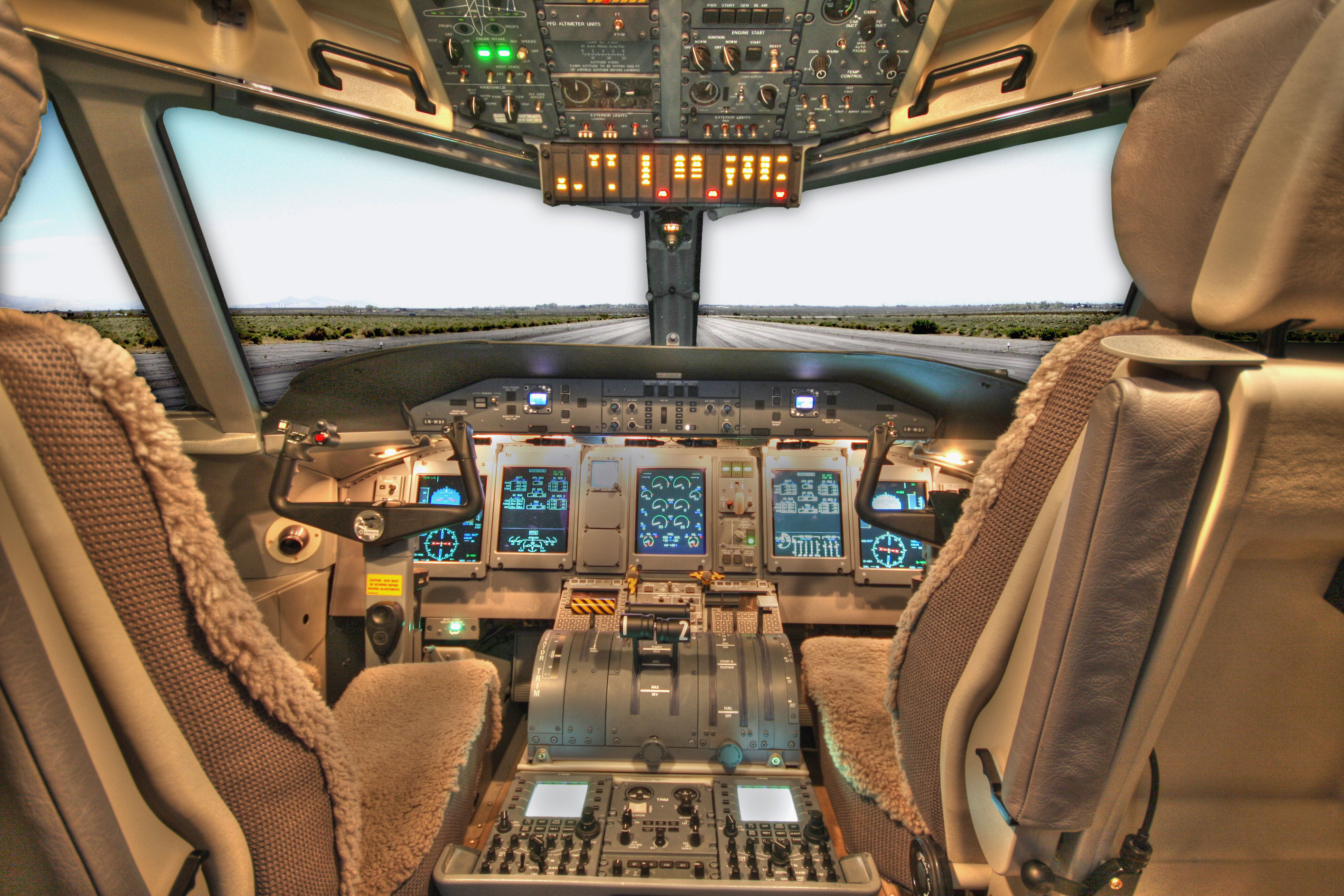 Cockpit of the Bombardier Q400 NextGen aircraft.